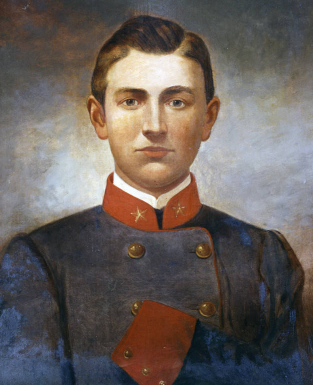 Portrait of Major Joseph W. Latimer, officer of the Confederate Army. Major Joseph White Latimer (VMI Class of 1863) was mortally wounded at Gettysburg on July 2, 1863 and died on August 1. He was known as the "Boy Major" and served with W. A. Tanner's Company of Virginia Light Artillery. The Long Arm of Lee, Volume 2, J. P. Bell Company, Inc., Lynchburg, Virginia, 1915